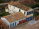 Historical Center, in Cachoeirinha, Wagner City, State of Bahia, Brazil.